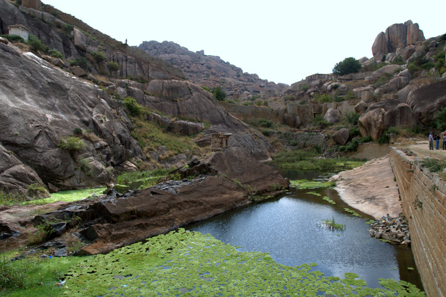 Fortress & Temples on the hill